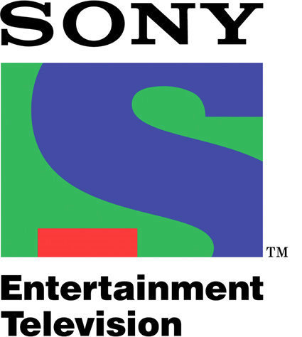 Sony Entertainment Television logo 1995-2016